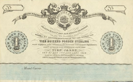 one pound-banknote of Griqualand East (1862-1879), printed 1867, presented 01 January 1868